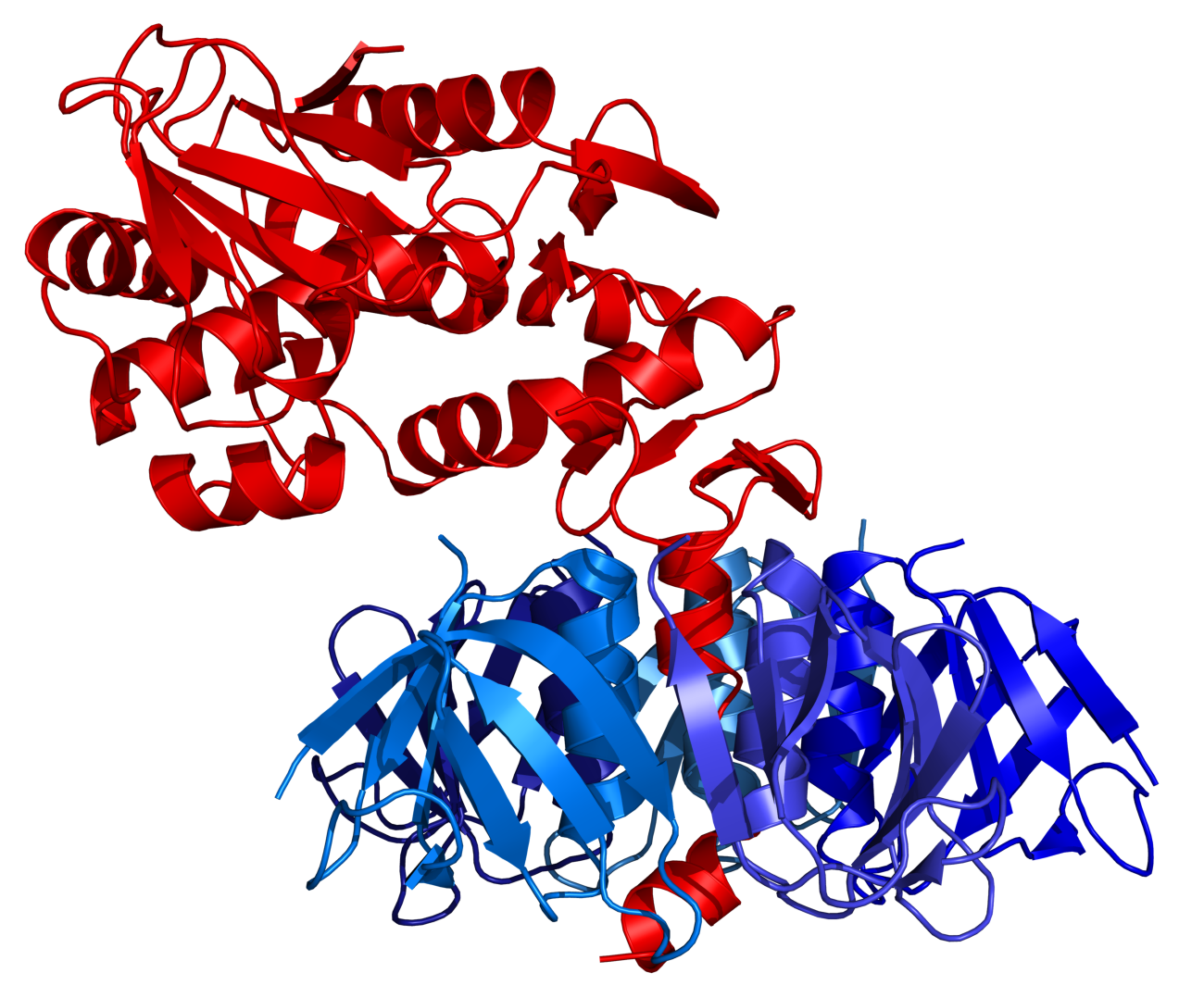 Ribbon diagram of Shiga toxin type 2 (Stx2) from Escherichia coli O157:H7. A-subunit shown in red, B-subunits (forming B-pentamer) shown in shades of blue.Created using PyMOL ( and GIMP. Optimized using OptiPNG.